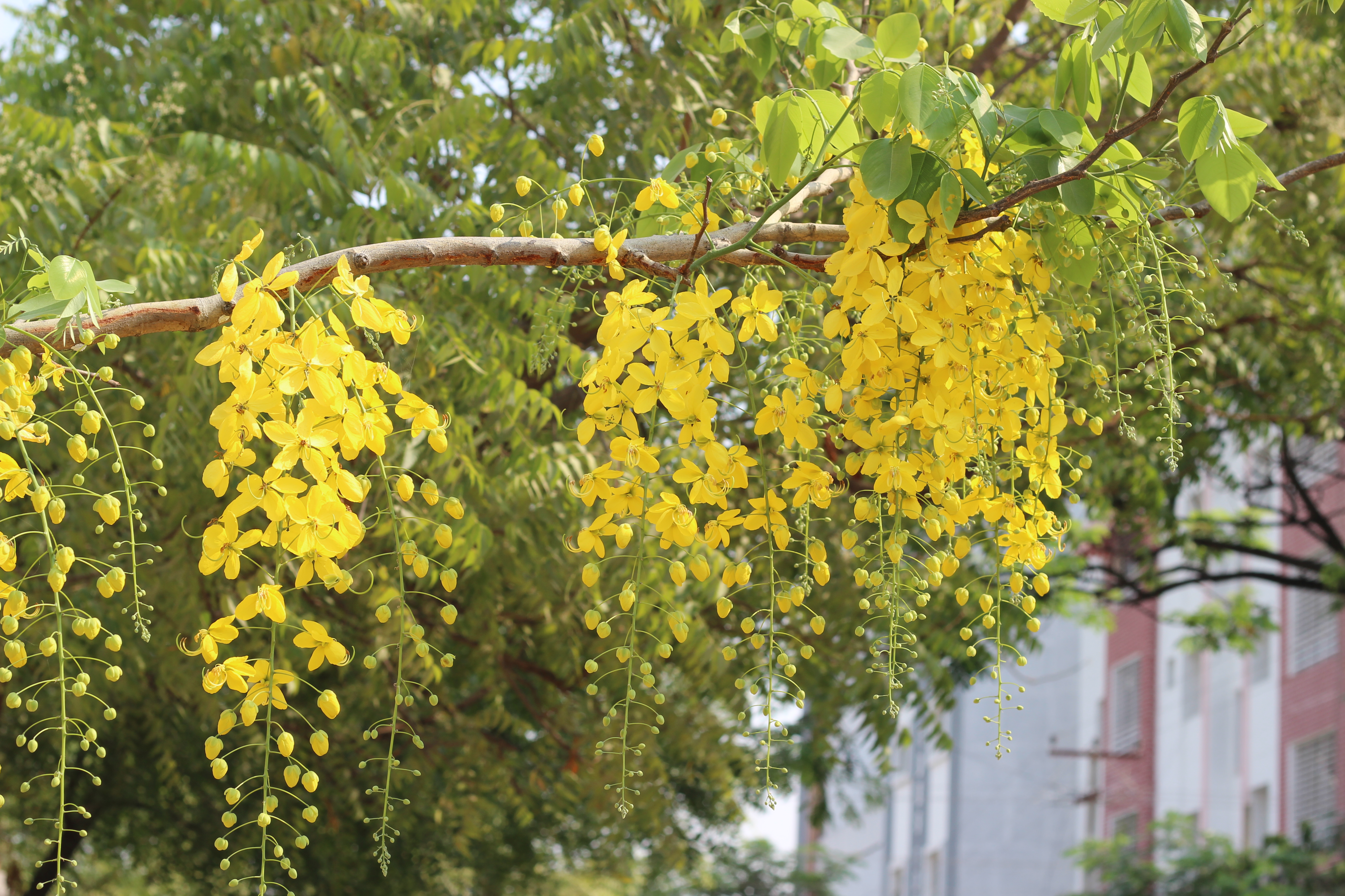 Cassia fistula అరగ్వద, రేల